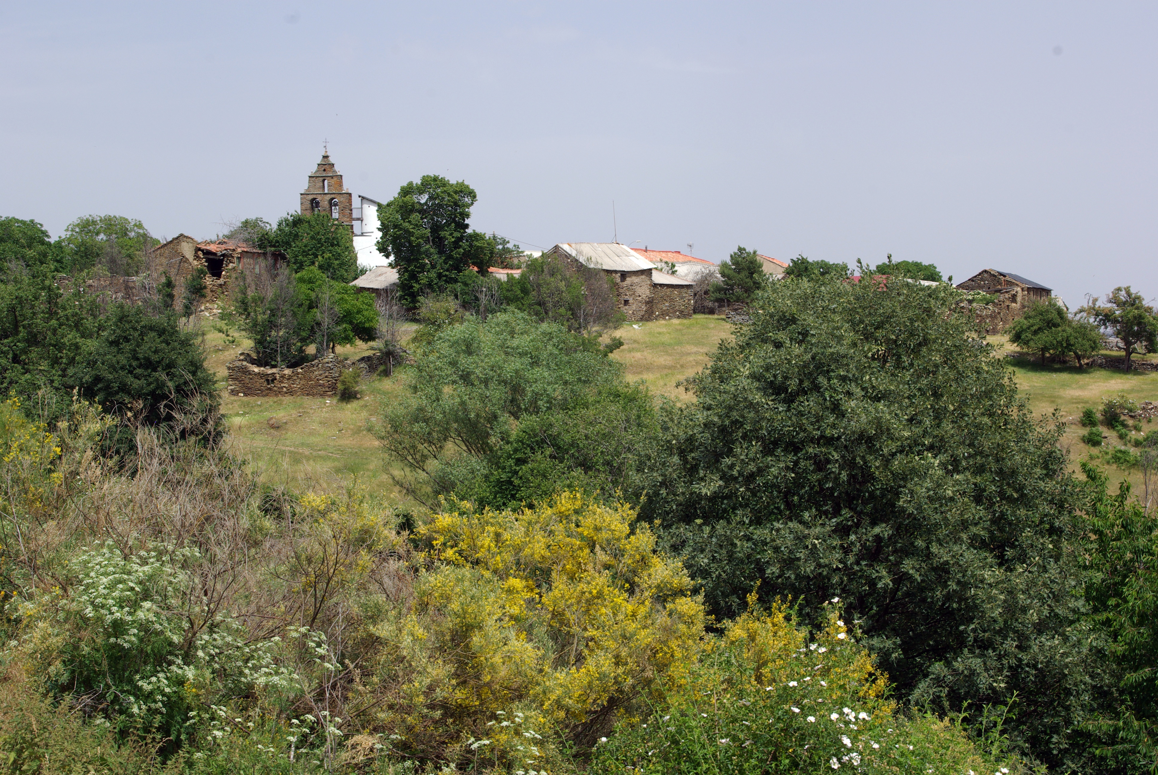 Campo La Lomba (Riello, León, Spain).